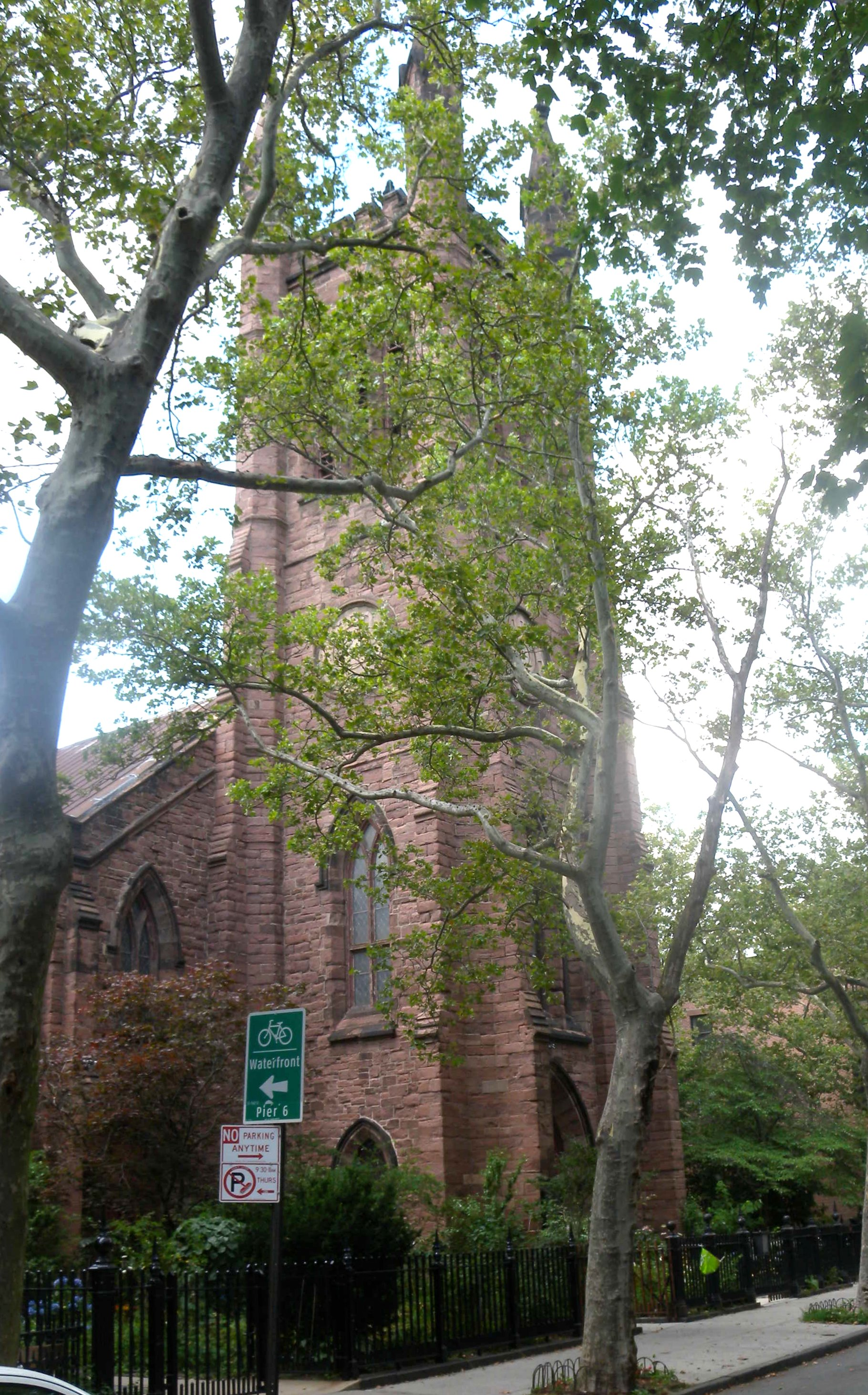 Looking north across Clinton St at Christ Church on a partly sunny midday.